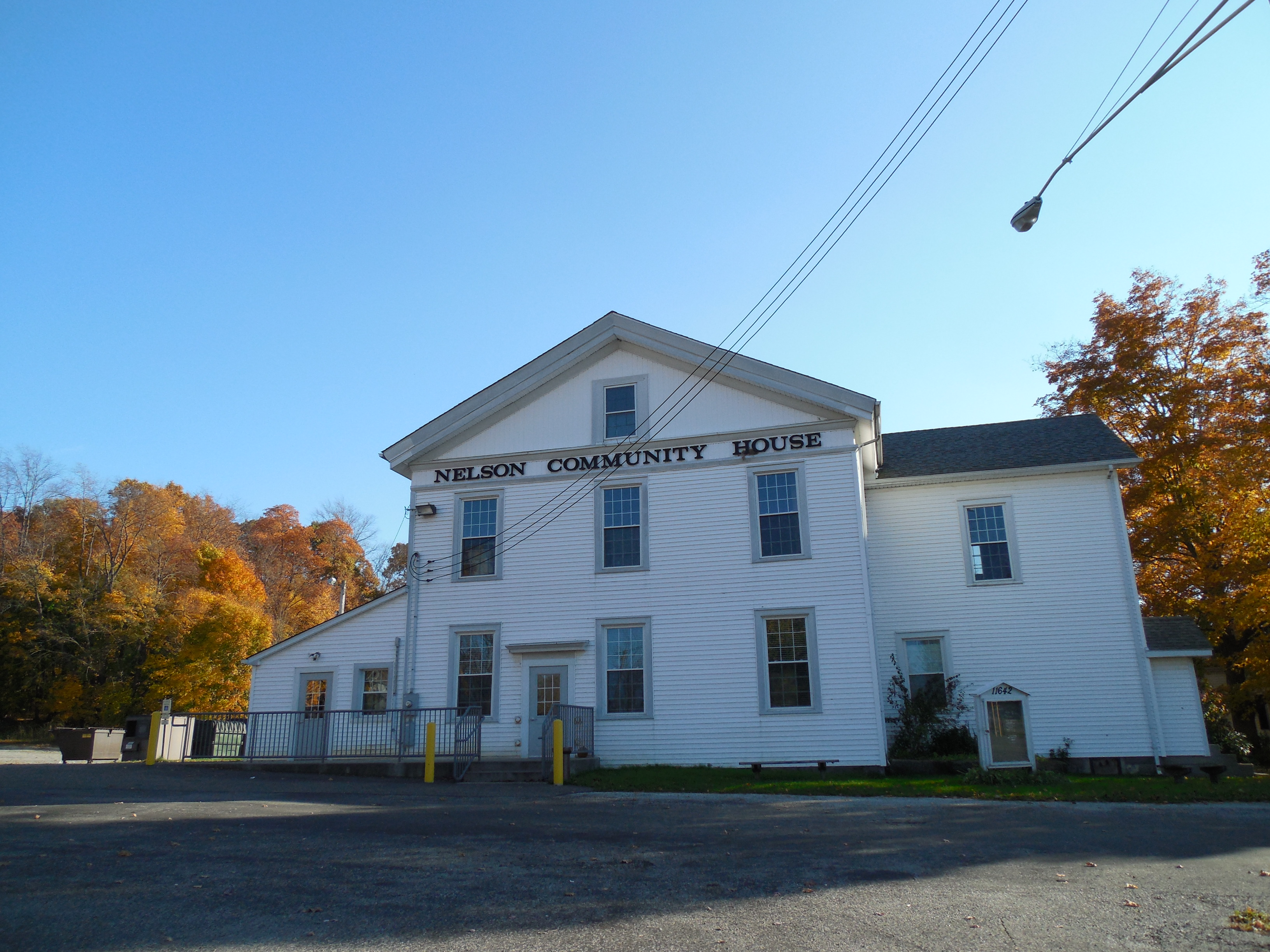 Nelson Community House in Nelson, Nelson Township, Portage County, Ohio. Originally a private high school, the Nelson Township trustees bought the 1850's Nelson Academy Building in 1914 for $1,200. It is now a community center.